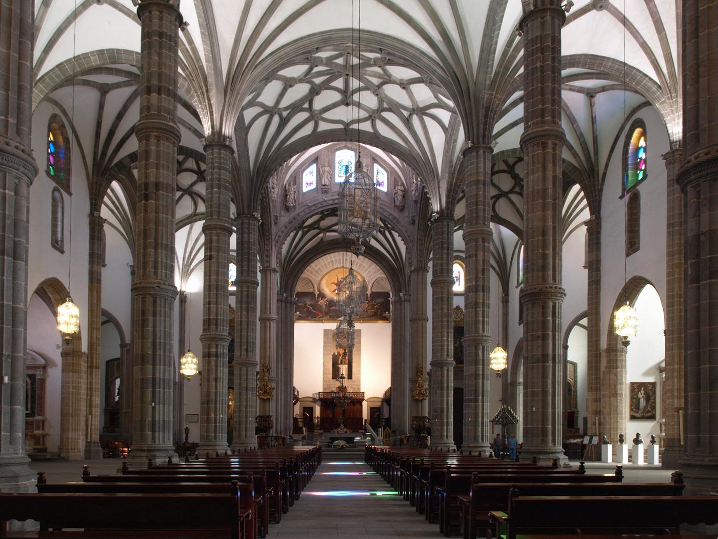 Las Palmas de Gran Canaria , Church Santa Ana, interior , photo 2009